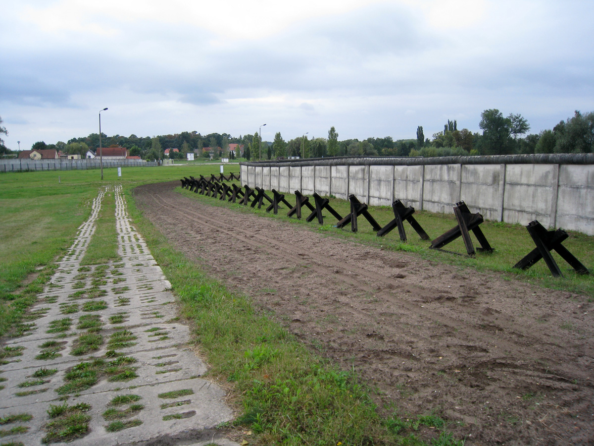 Preserved inner German border fortifications at Hötensleben: signal fence (far left background), Kolonnenweg (centre left), control strip (centre right), anti-vehicle barriers (right), border wall (background right).